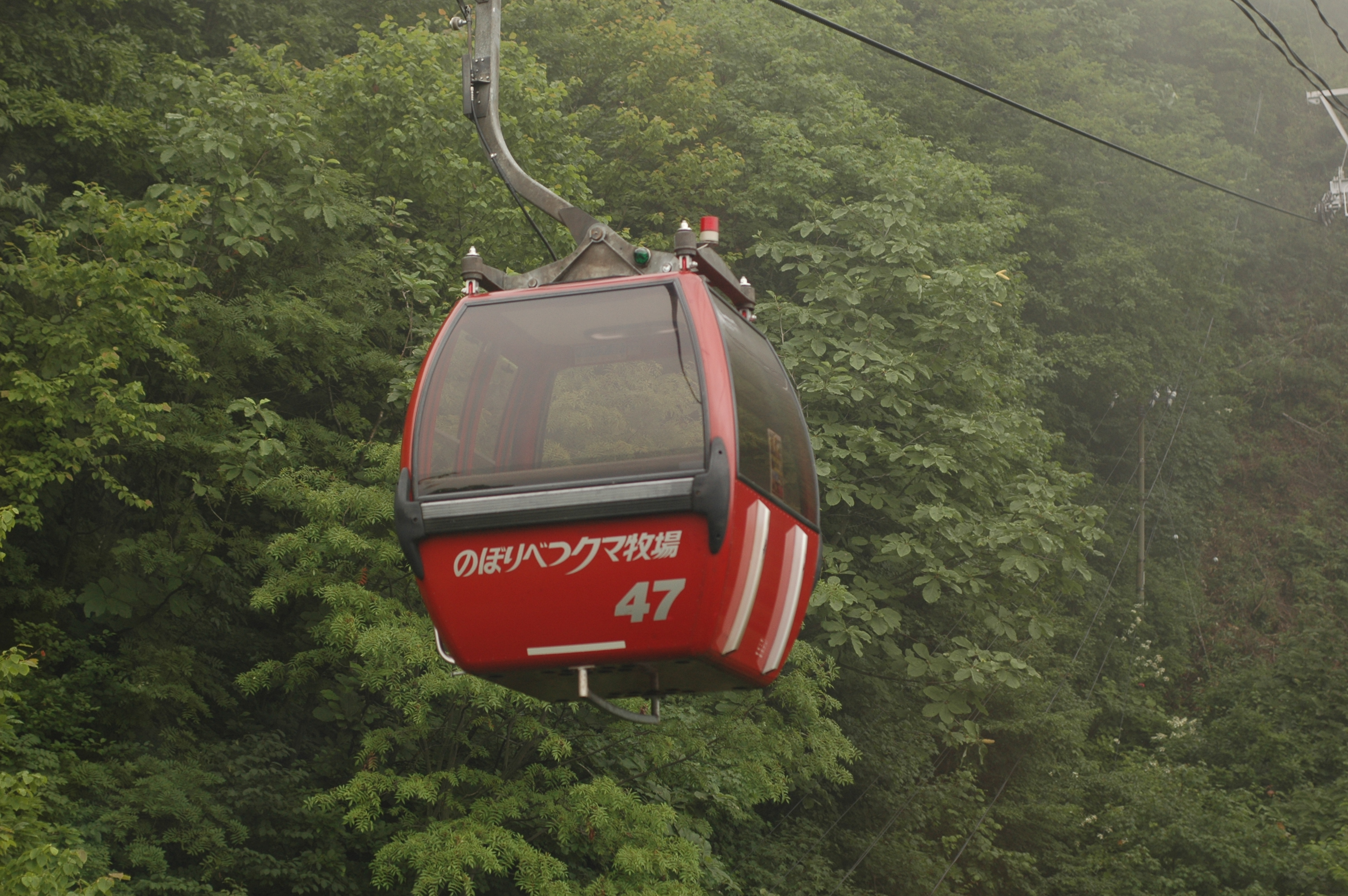 Noboribetsu bear park. Noboribetsu, Hokkaido, Japan.